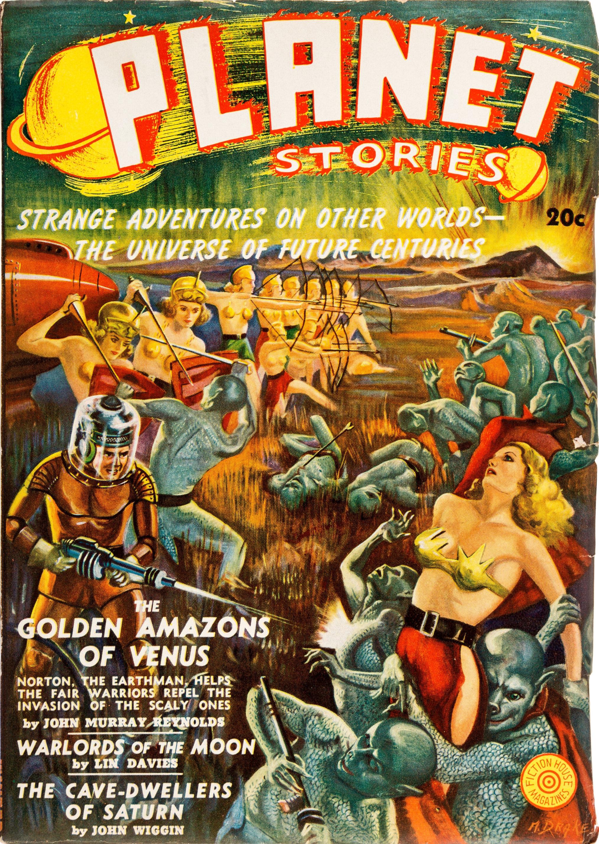 Planet Stories magazine cover. Vol. 1, no. 1, Winter 1939. Published by Fiction House.